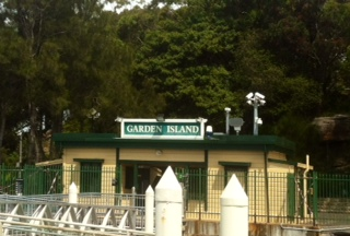 Wharf in 2015